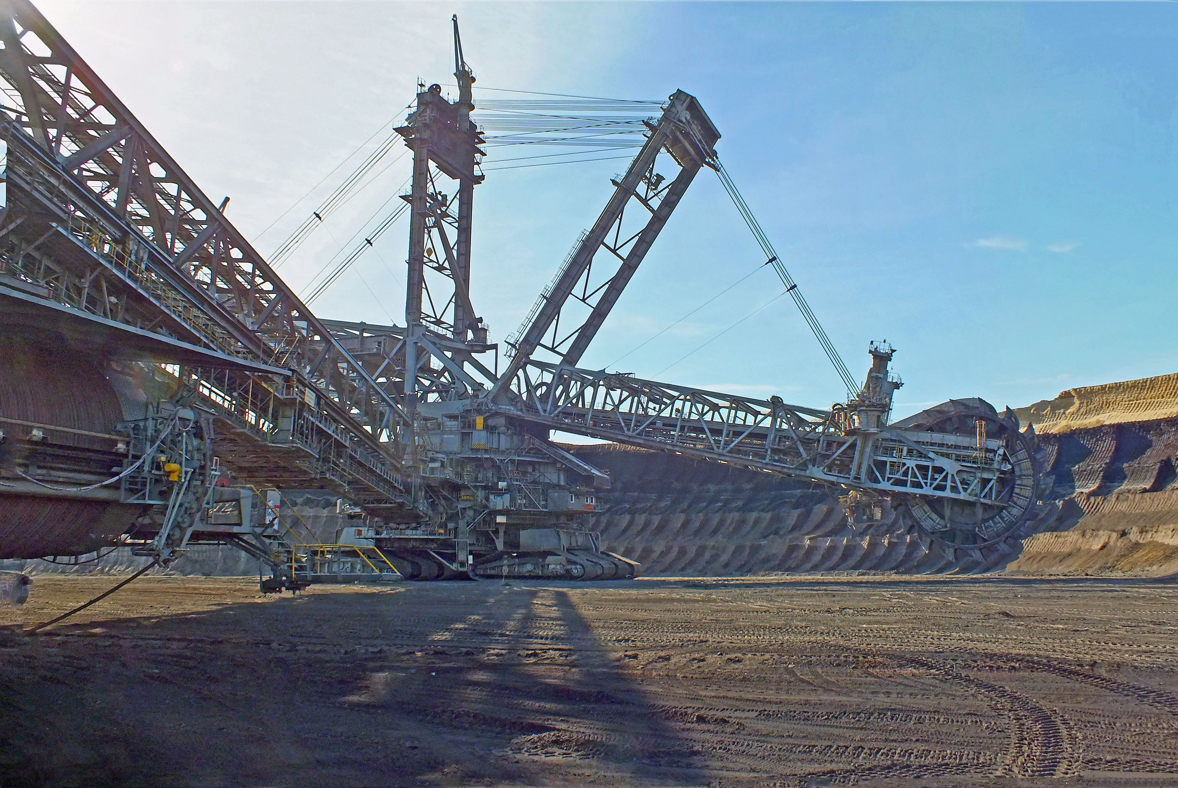 Bucket-wheel excavator 288 in lignite daylight mine Garzweiler, Germany